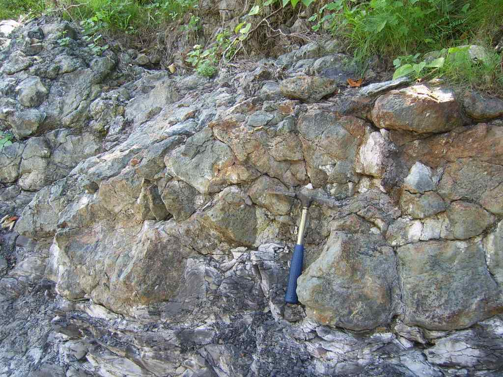 Pillow lavas on the left bank of the Ostravice river near Baška village, Czech Republic.